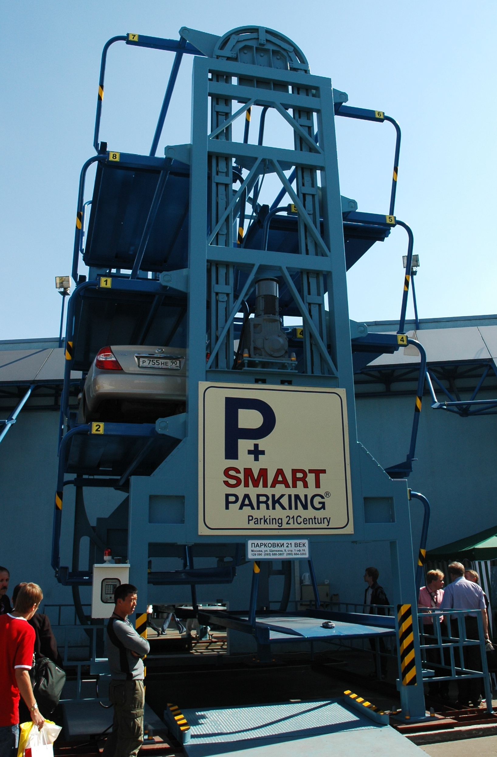 Rotary parking. Smart-Parking